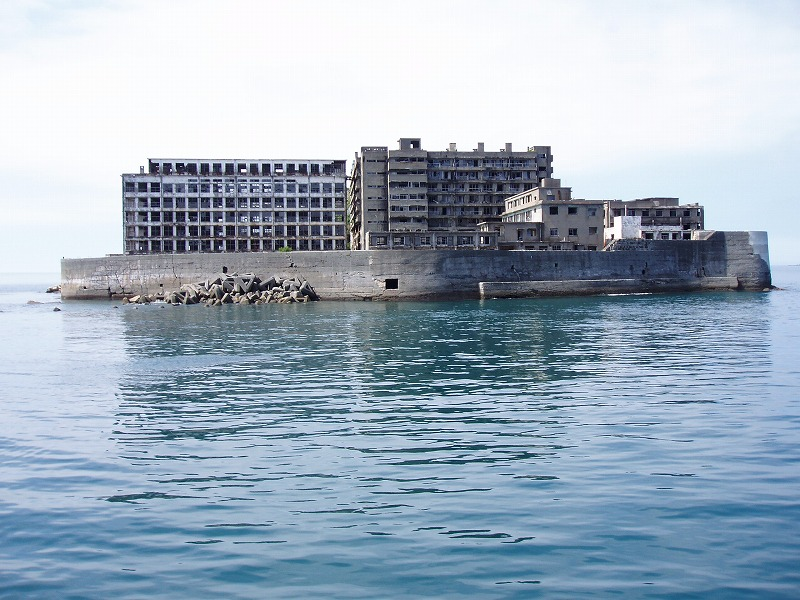 View of Hashima Island.